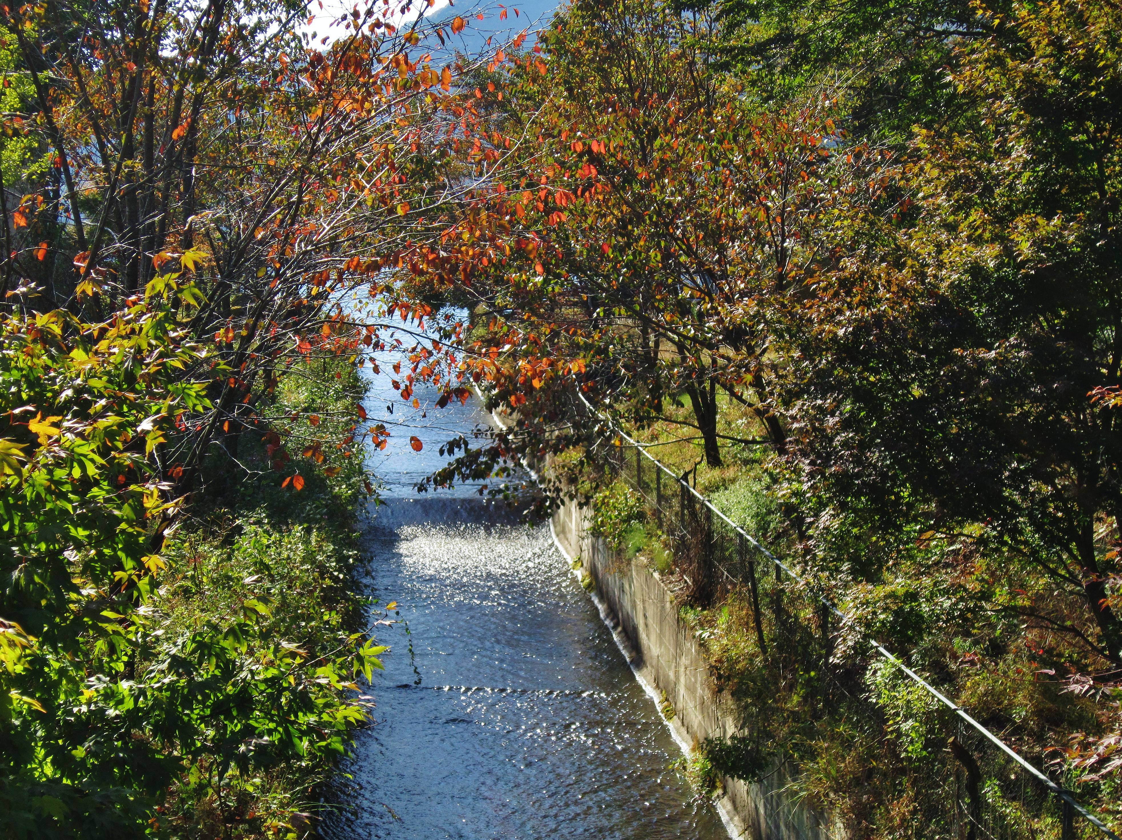 Numao River spilled from Lake Haruna.